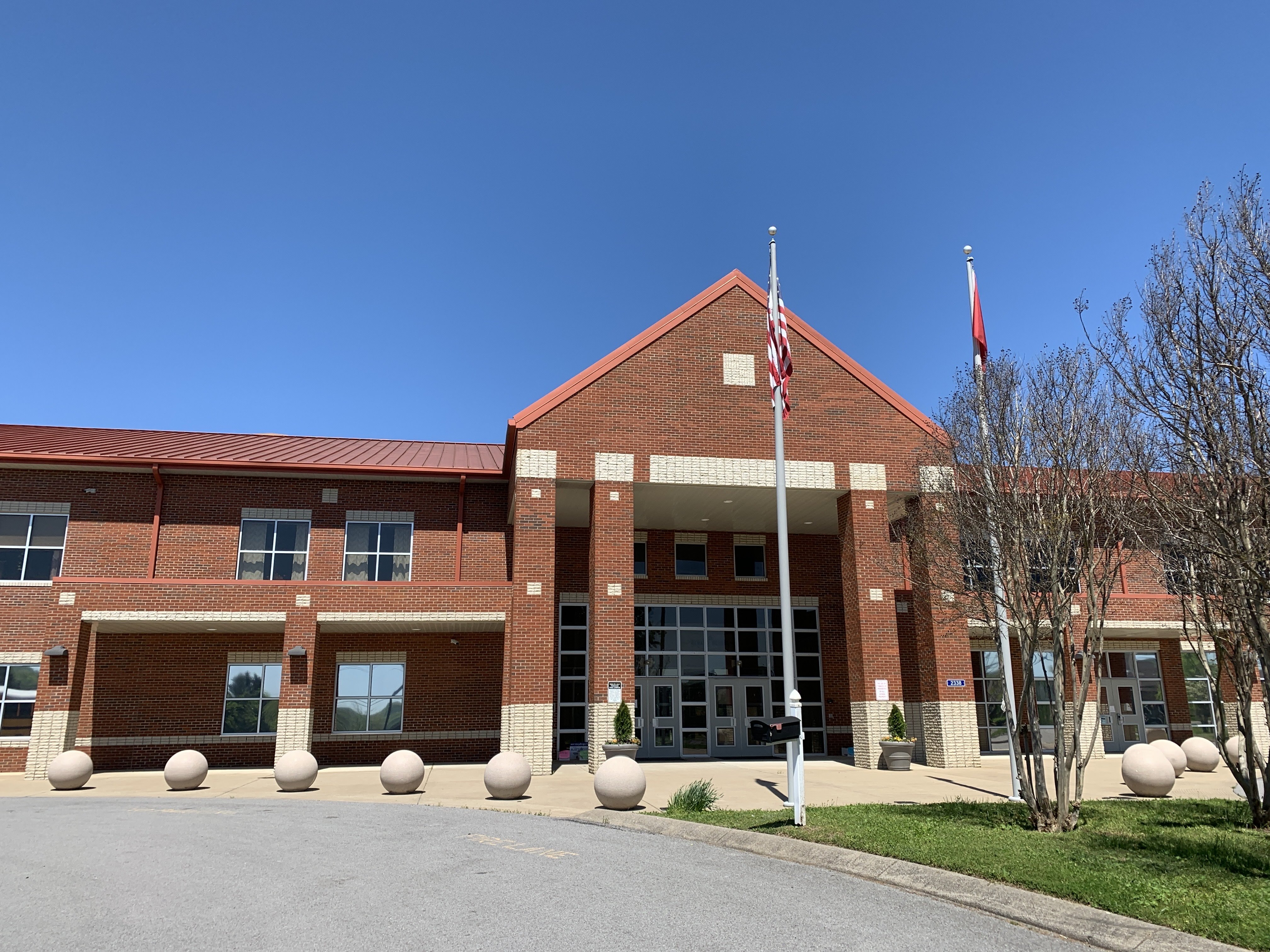 Nolensville Elementary School front entrance